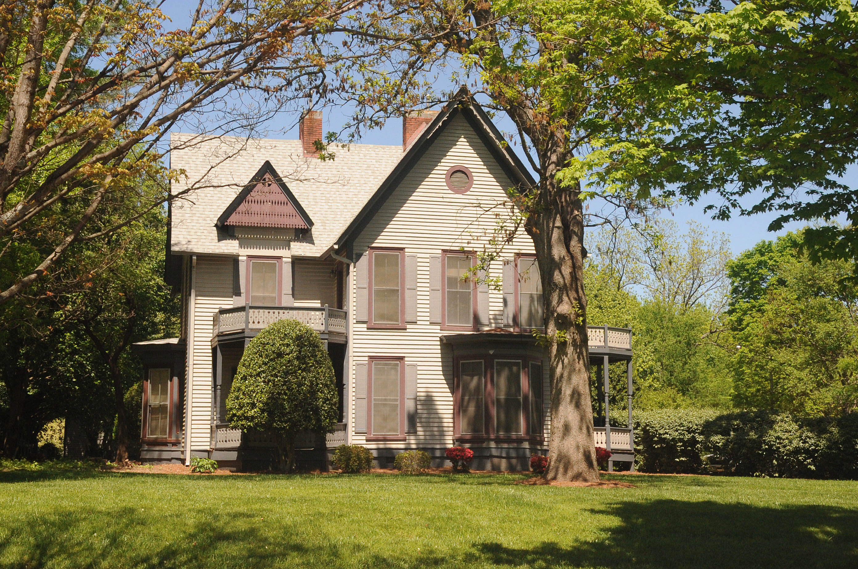 J. S. Ramsey House, – 1890; Victorian cottage with Gothic and Swiss Chalet influences.